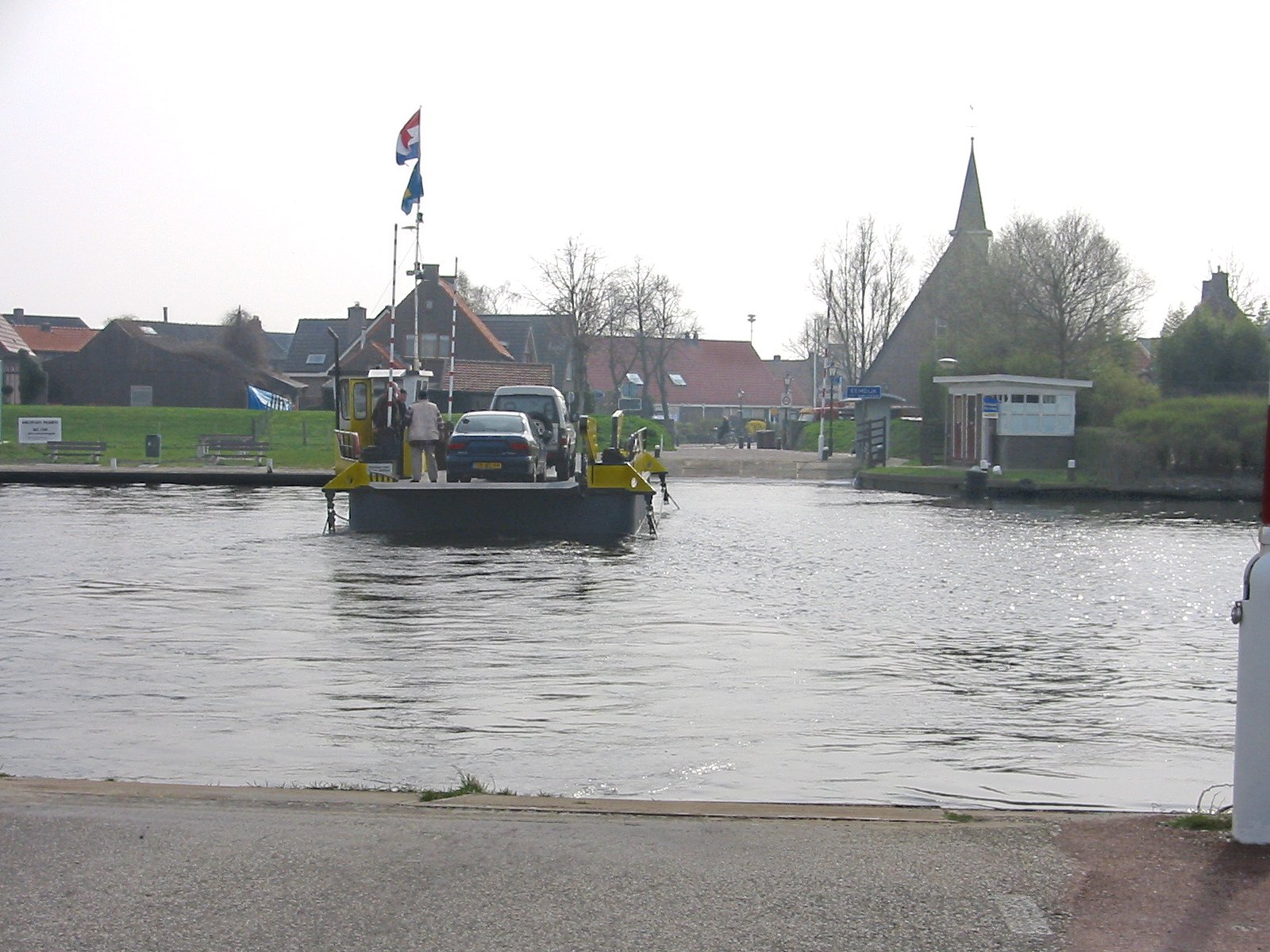 Eigen foto. GerardM 8 apr 2004 21:15 (CEST) Categorie:Afbeelding schip